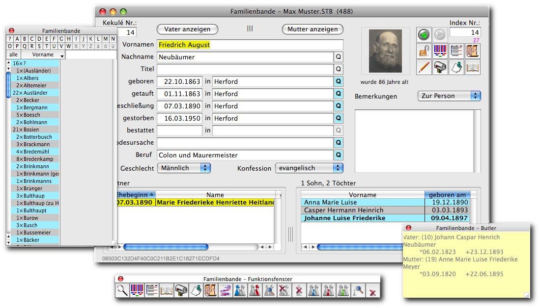 Screenshot of the program "Familienbande", main screen